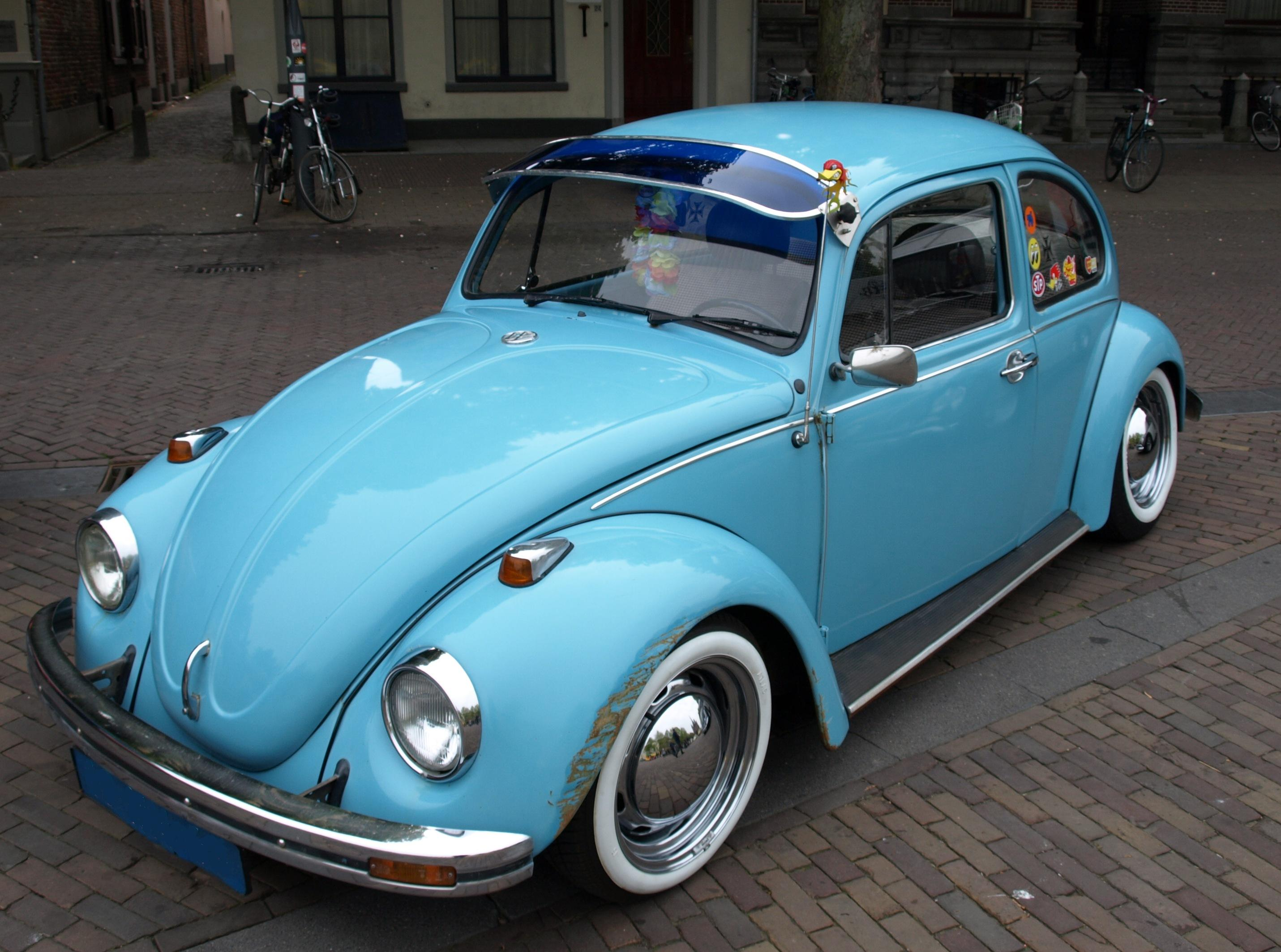 Aircooled Chillout Day 2009 - Deventer 1976 - Volkswagen Type 1